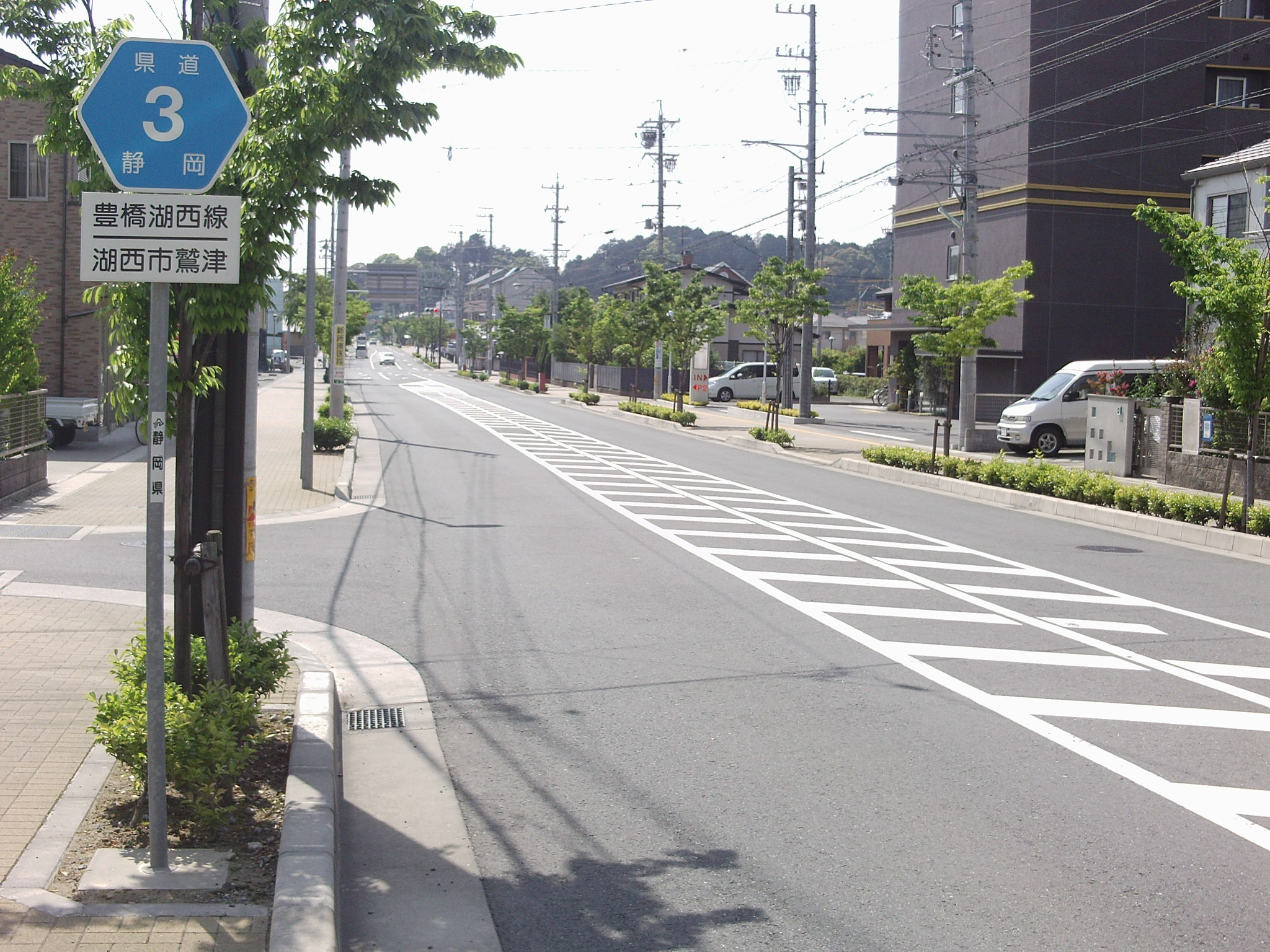 The Shizuoka Prefectural Road Route 3 in Washizu, Kosai City